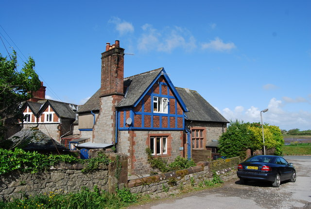 Red Sandstone Cottage, Ravenglass